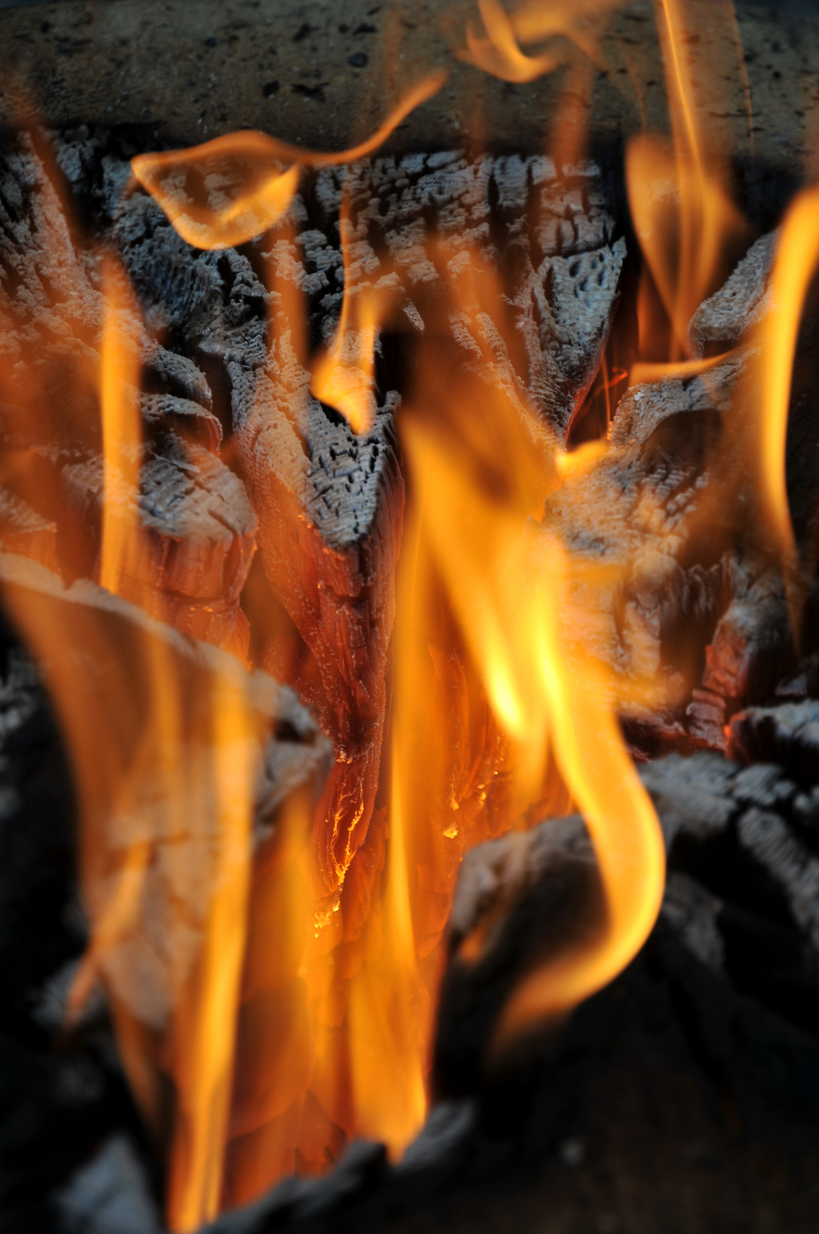 Fire generated by a burning wood. No use of petrol.